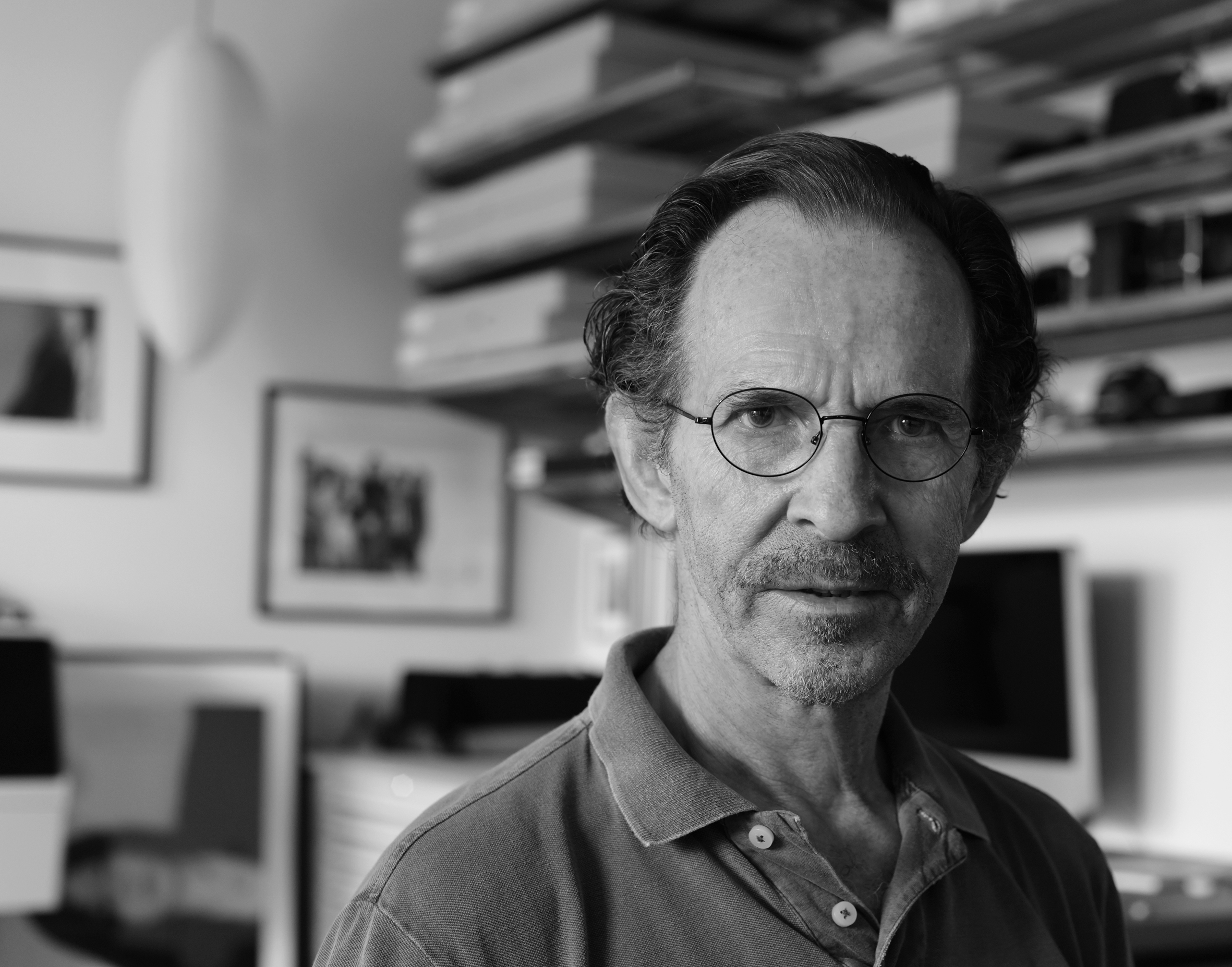 Daniel Gendre, Swiss photographer, in 2016. Photograph by his wife Susanne Gendre-Heberlein.